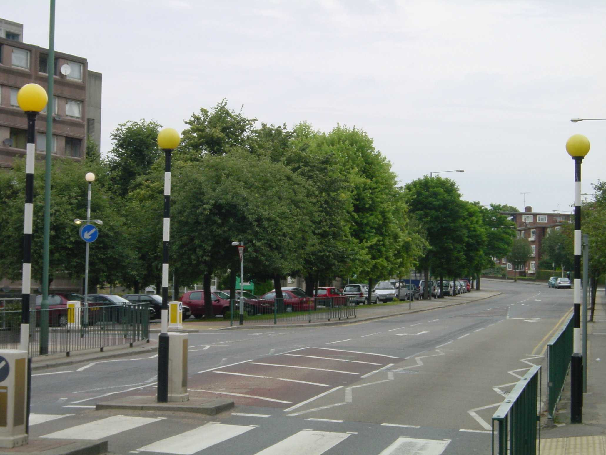 Winchelsea Road, London NW10, UK